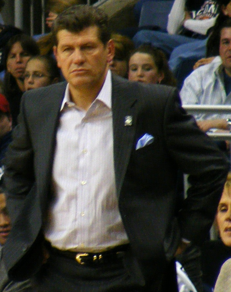 University of Connecticut head women's basketball coach Geno Auriemma during a game against the University of Texas on March 23, 2008.